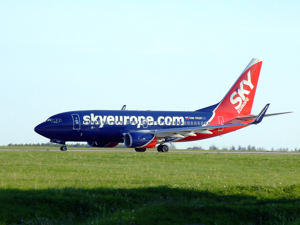 Boeing 737-76N OM-NGD SkyEurope